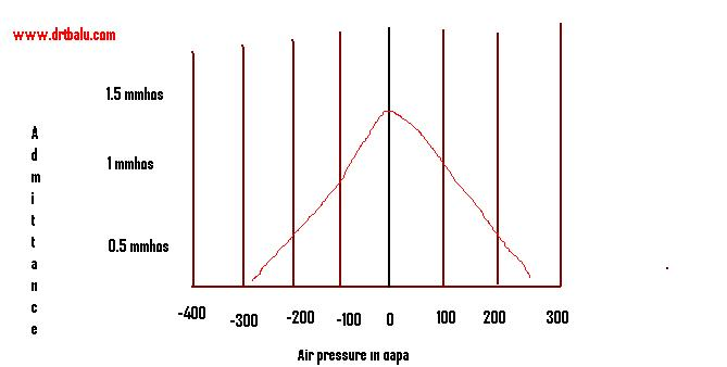 Tympanogram Type 1